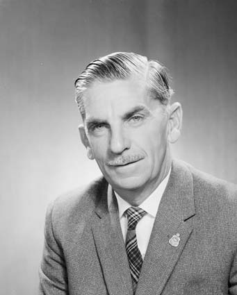 A 1962 black and white portrait of Kenneth Anderson, Senator for New South Wales